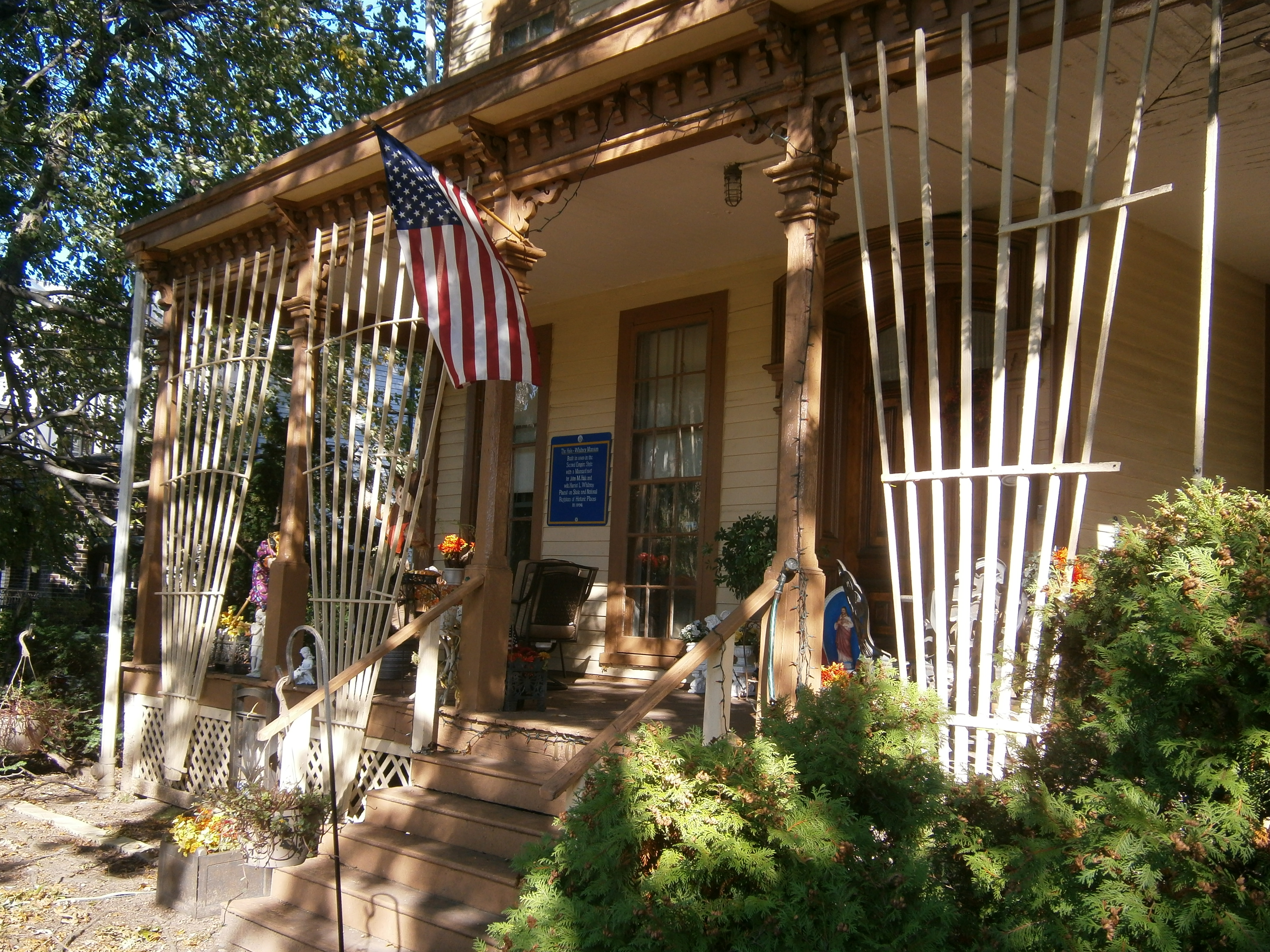 Hale-Whitney Mansion, a NRHP site, bedecked for Halloween 2011